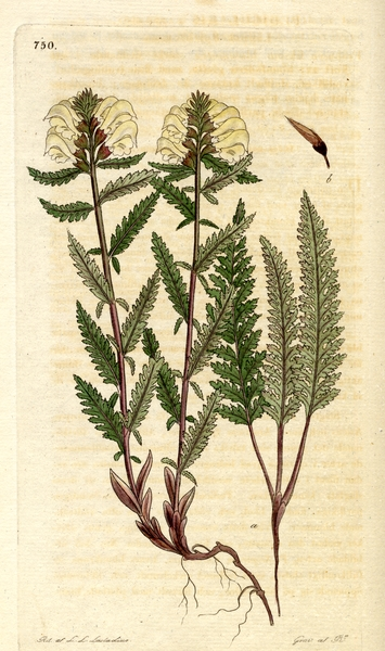 Pedicularis lapponica, drawn by Lars Levi Laestadius for the flora Svensk Botani (published in 1843).